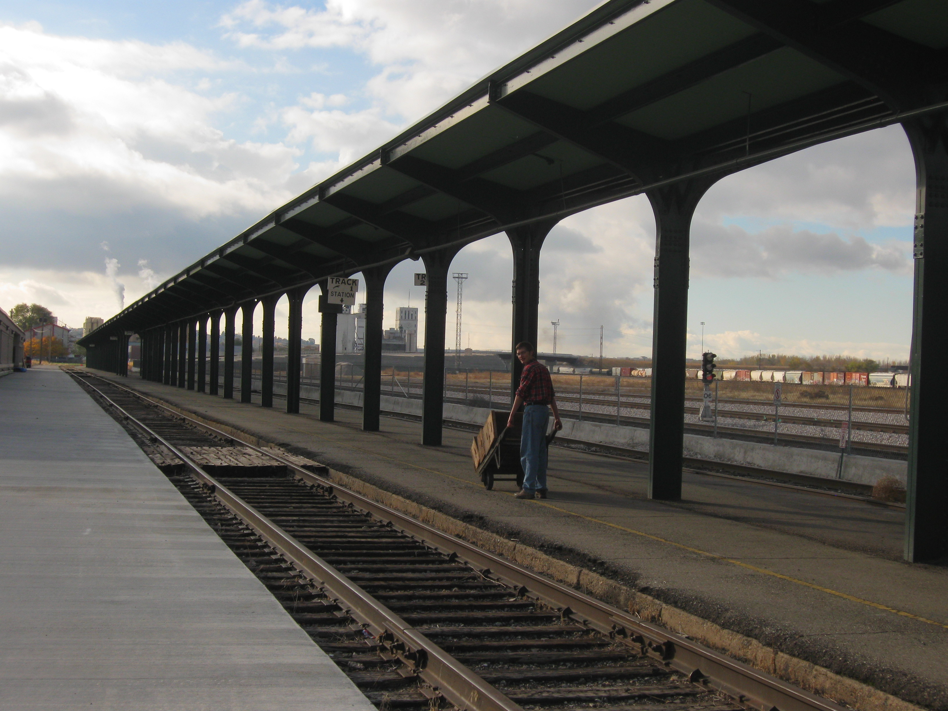 A Southern Pacific-style butterfly canopy over the passenger platform at the Union Station in Ogden, Utah.